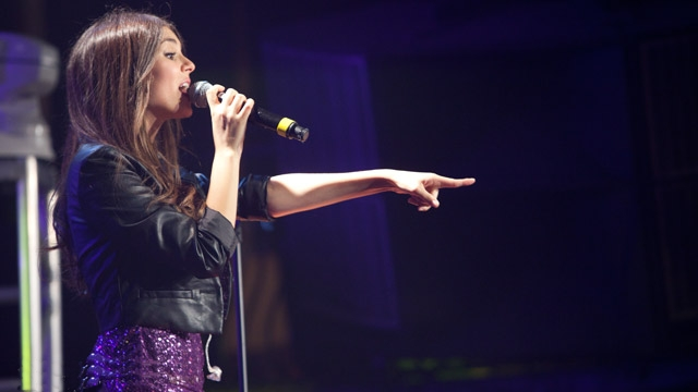 Victorious cast live on Walmart Soundcheck.